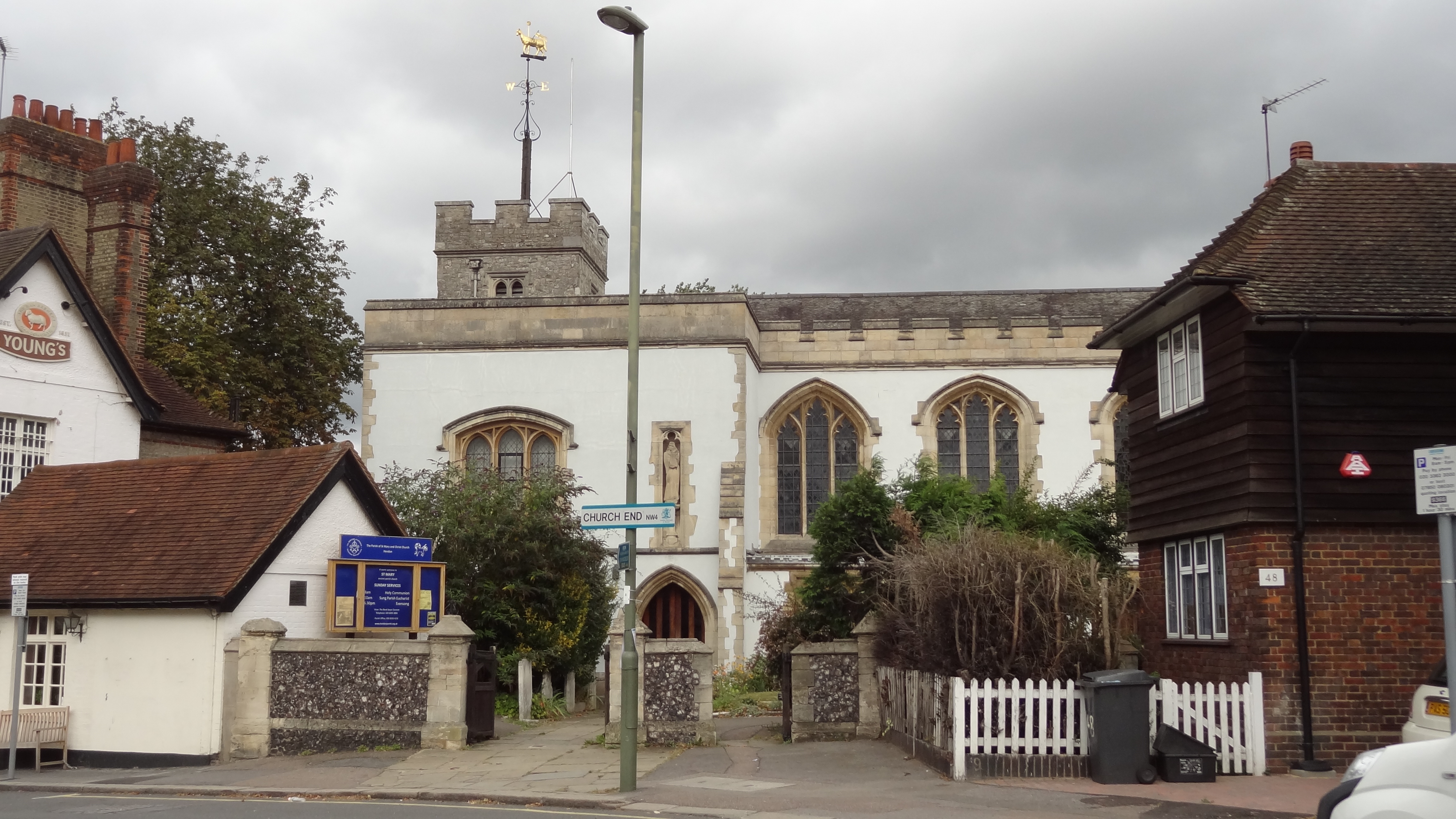 Exterior of St Mary's Church Hendon, Barnet, London